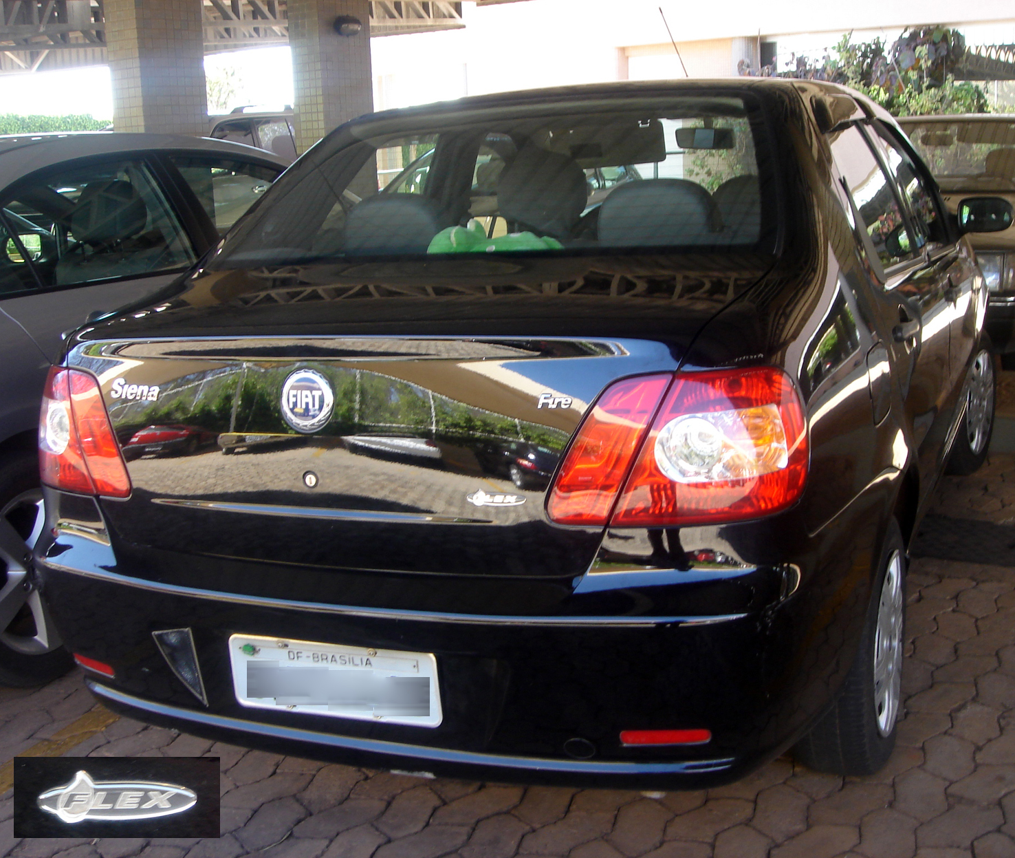 Brazilian flex-fuel version of Fiat Siena Flex, shown rear view with Flex version logo.